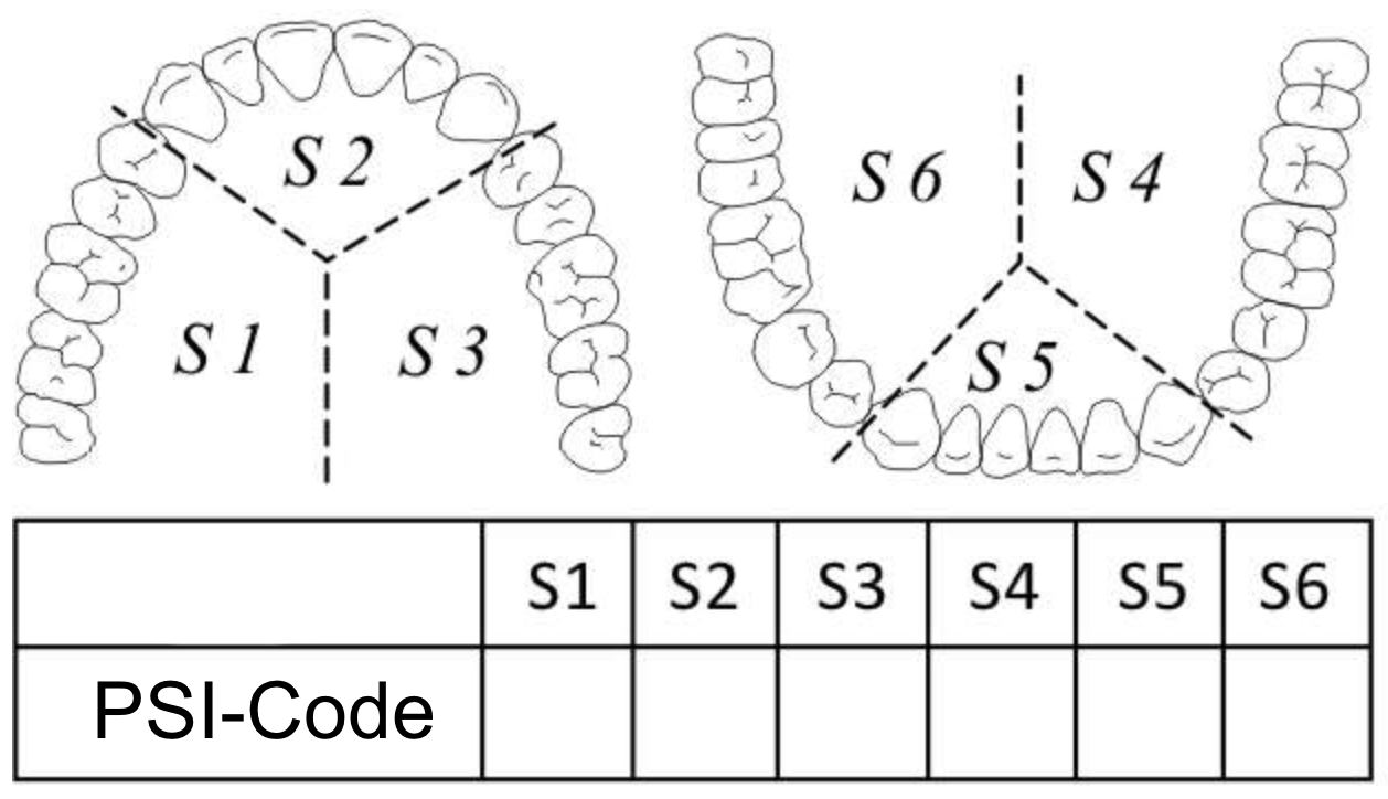 Periodontal Screening and Recording